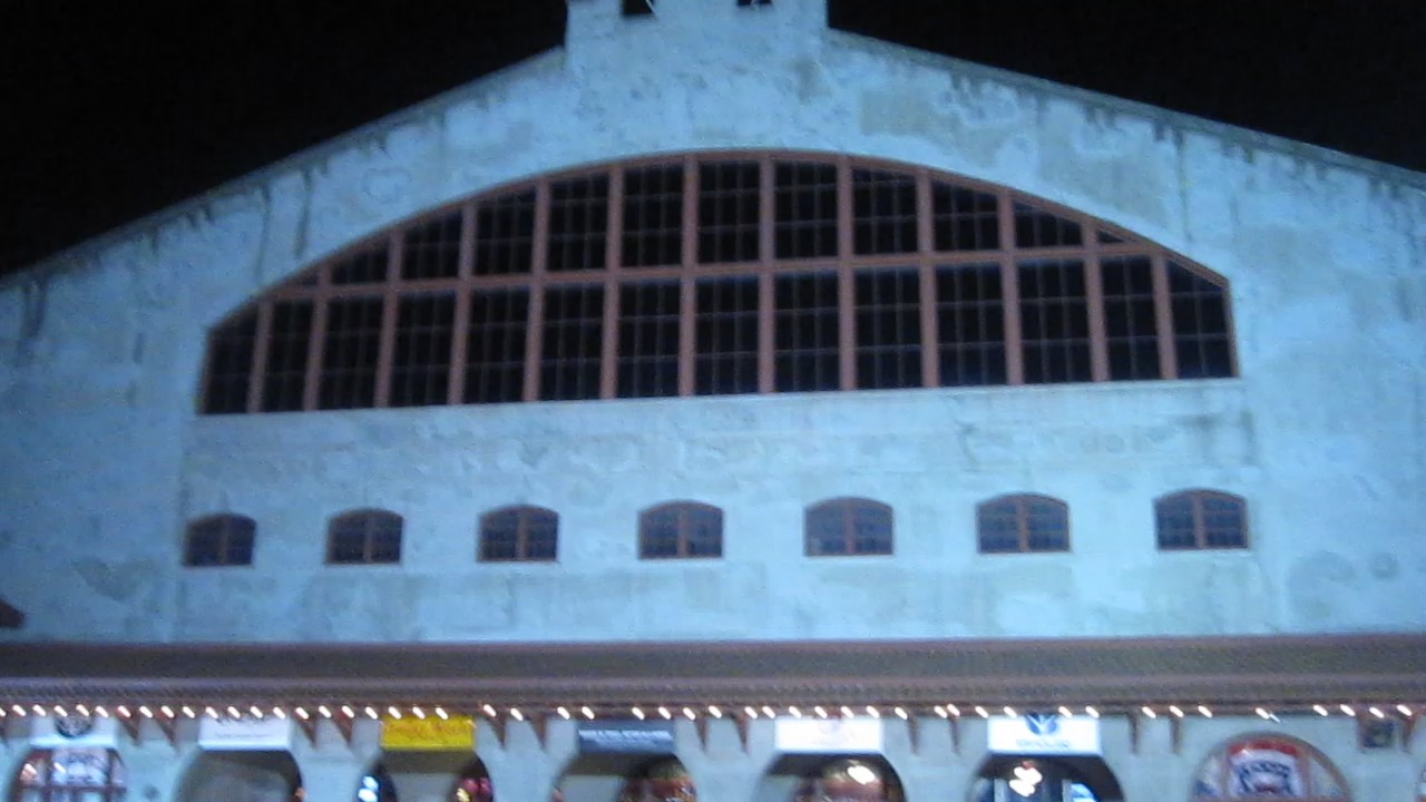 I took photo of Cowtown Coliseum in Fort Worth with a Canon camera.